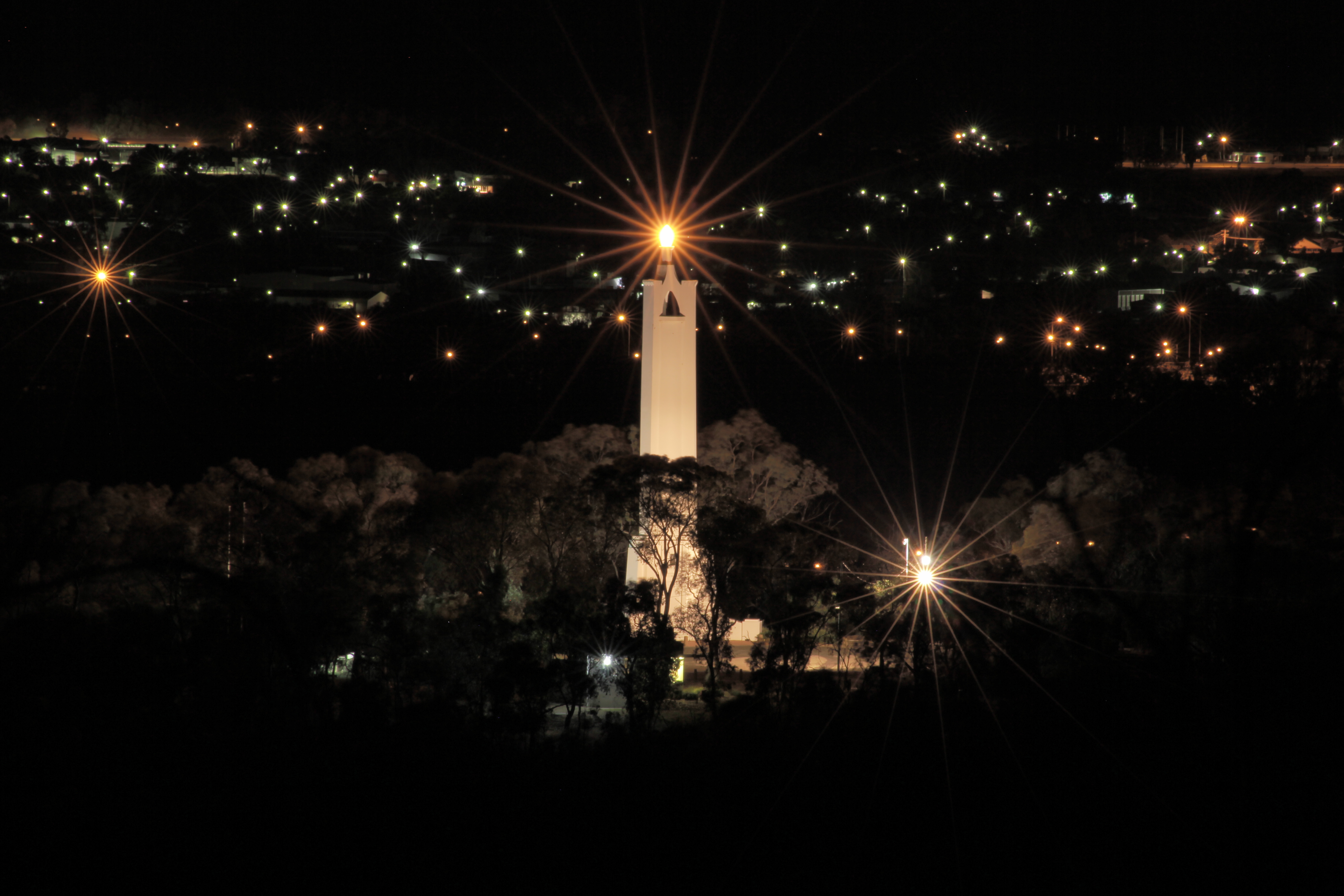 The Albury, NSW war memorial for soldiers who died in various wars.